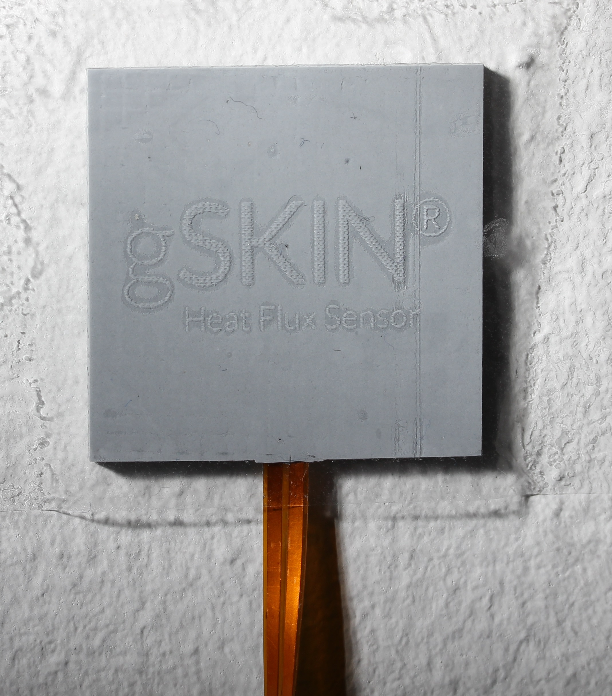 gSKIN Heat flux sensor of greenTEG